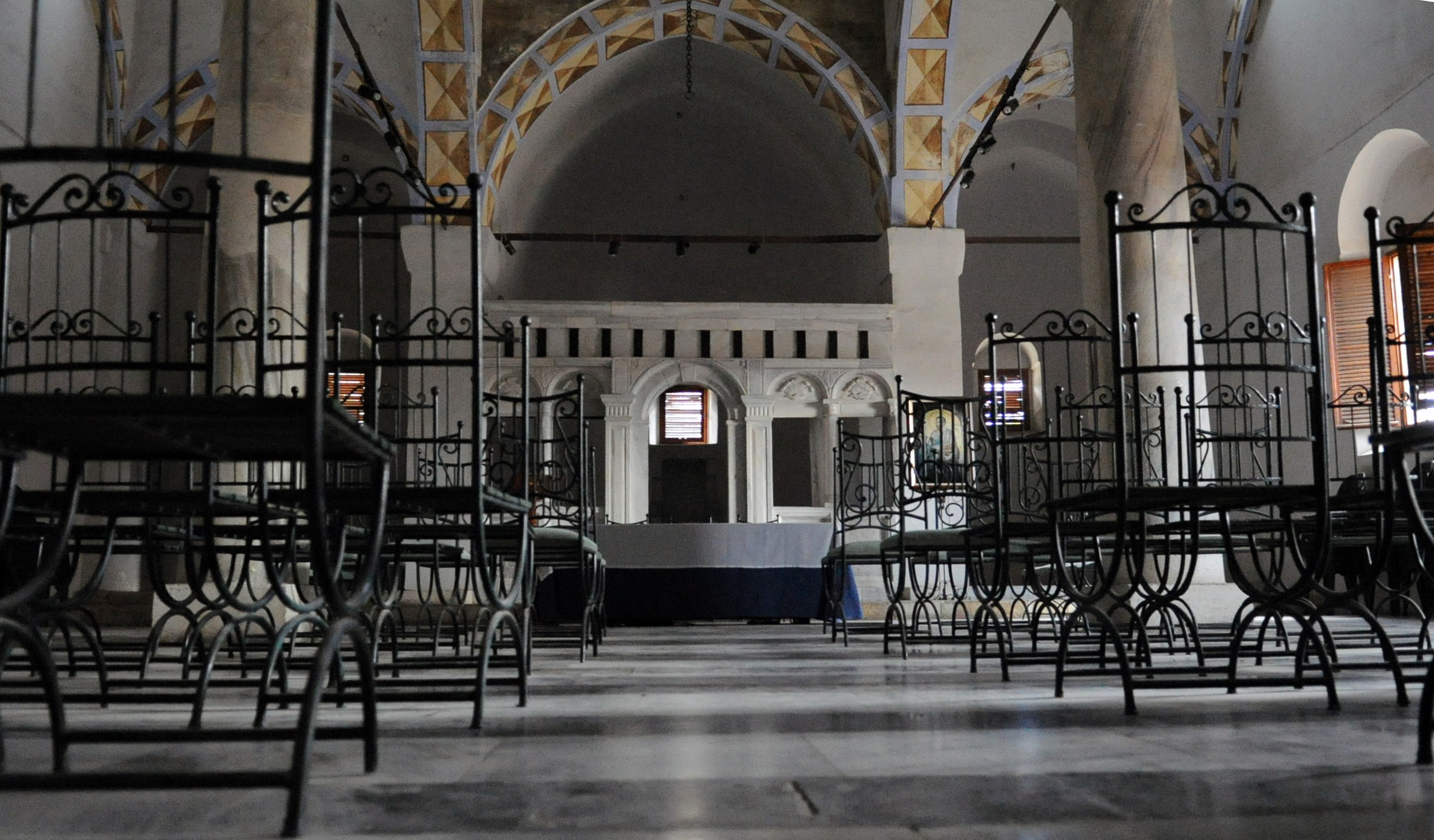 Chairs are set up at the museum of St. Paul's church, a former Greek Orthodox Church Nov. 14, 2012, Tarsus, Turkey. According to tradition, the building date of the St. Paul Church is 1102, but the present structure was rebuilt in 1862. Tarsus is the city that Paul was born and lived in.